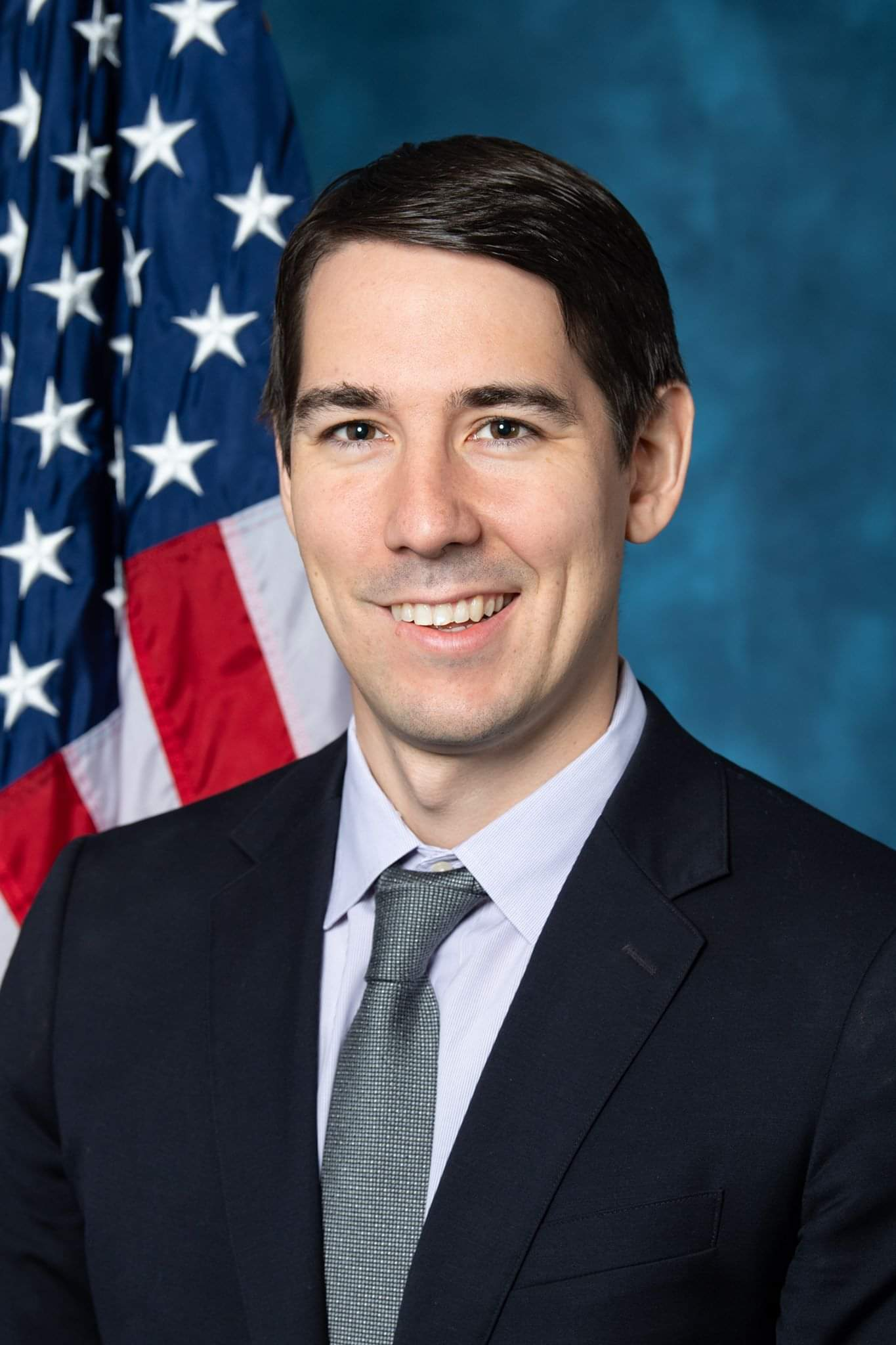 Rep. Josh Harder (D-CA10)